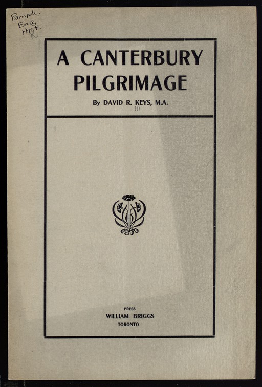 Cover of a A Canterbury pilgrimage by David Reid Keys published by William Briggs. Source: Canadian Pamphlets and Broadsides Collection, Thomas Fisher Rare Book Library, University of Toronto.